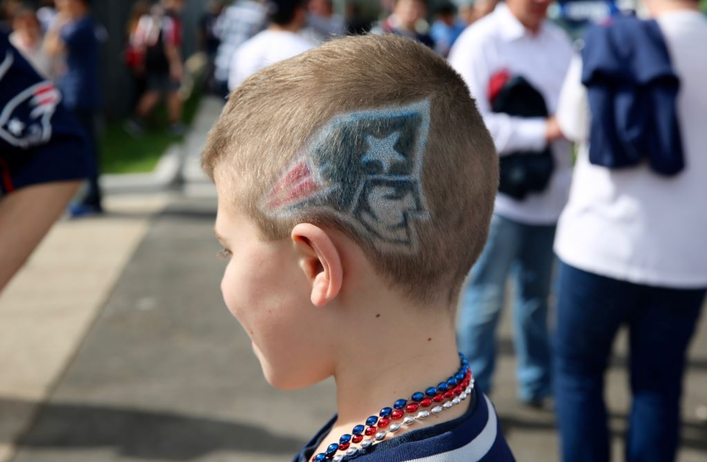 A young New England Patriots fan sports his team's logo painted in his hair at the Super Bowl in Houston, Texas.